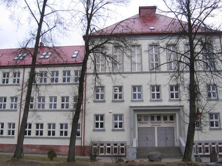 Algimanto Mackaus gimnazija